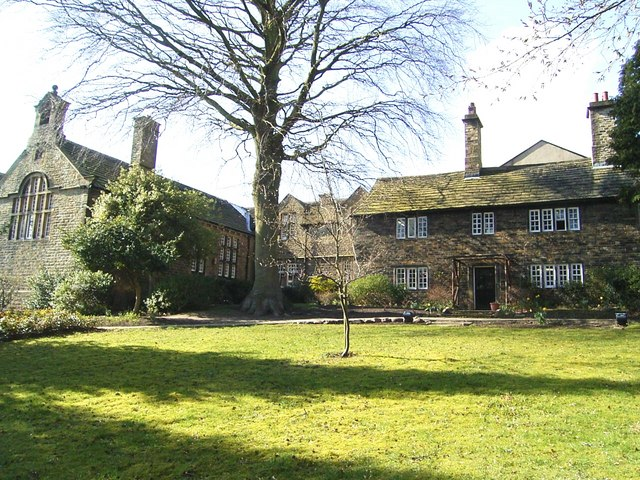 Almondbury Grammar School The school's origins go back to 1547,and in 1608 the school received its Royal Charter and became known as King James Free Grammar School and up till recent times was a boys' only school. It is now mixed. Architect William Swinden Barber designed the south wing in 1880, and further classrooms etc. in 1883.